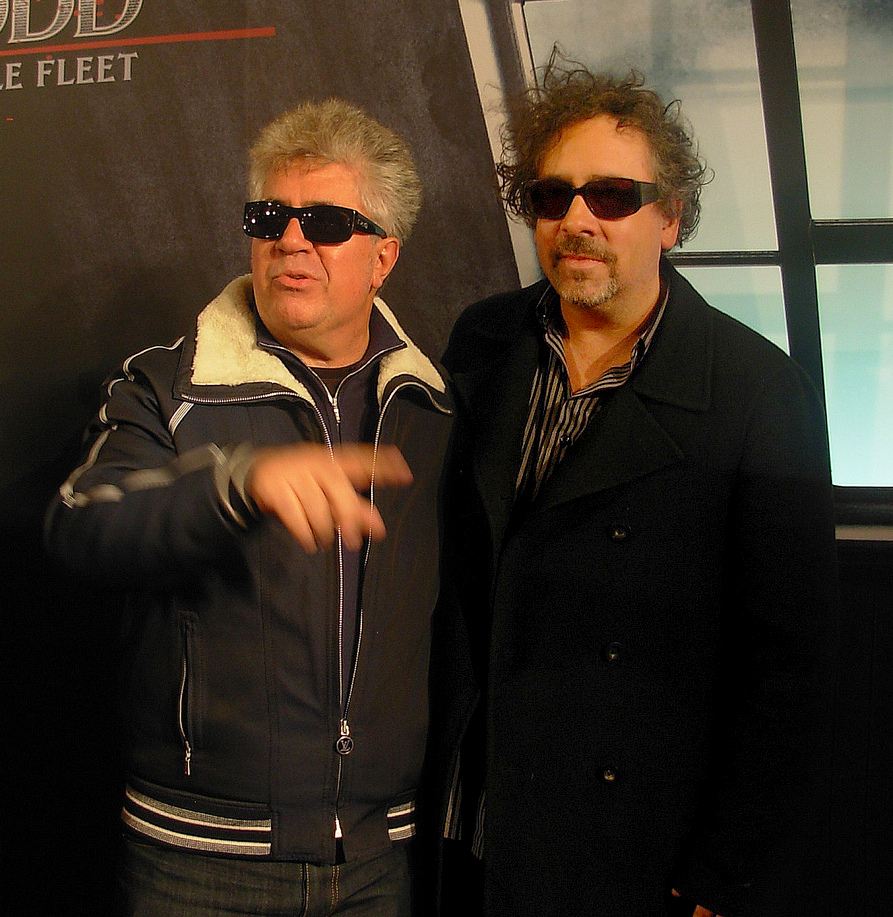 Pedro Almodóvar (left) and Tim Burton (right) at the première of the film Sweeney Todd in Madrid (Spain).